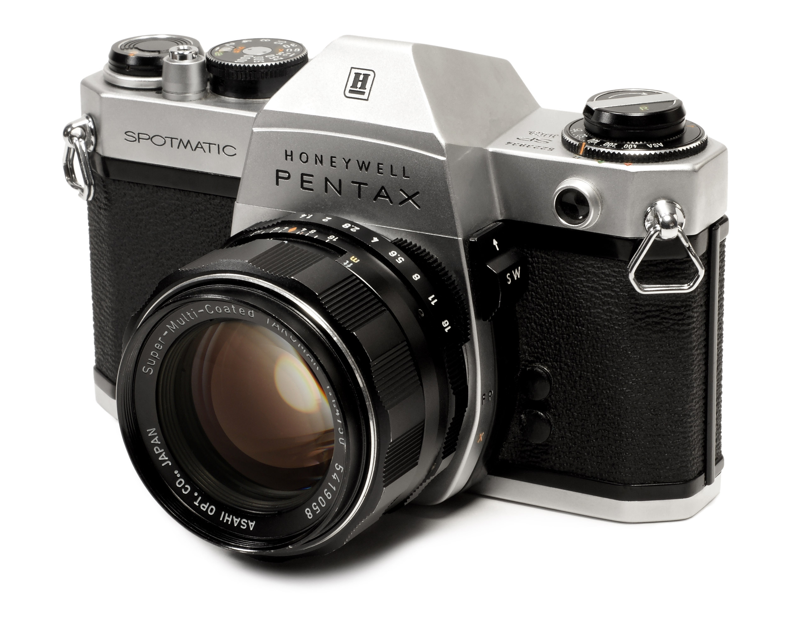 A Honeywell Pentax Spotmatic IIA SLR camera. Shown here with a Asahi Super-Takumar F/1.4 50mm lens that has yellowed.